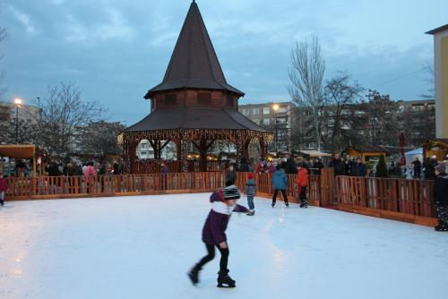 During the Christmas market